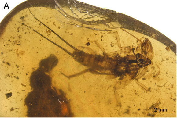 Electroneuria ronwoodi, holotype SMNS BU-306, photographs. (A) Dorsal view.